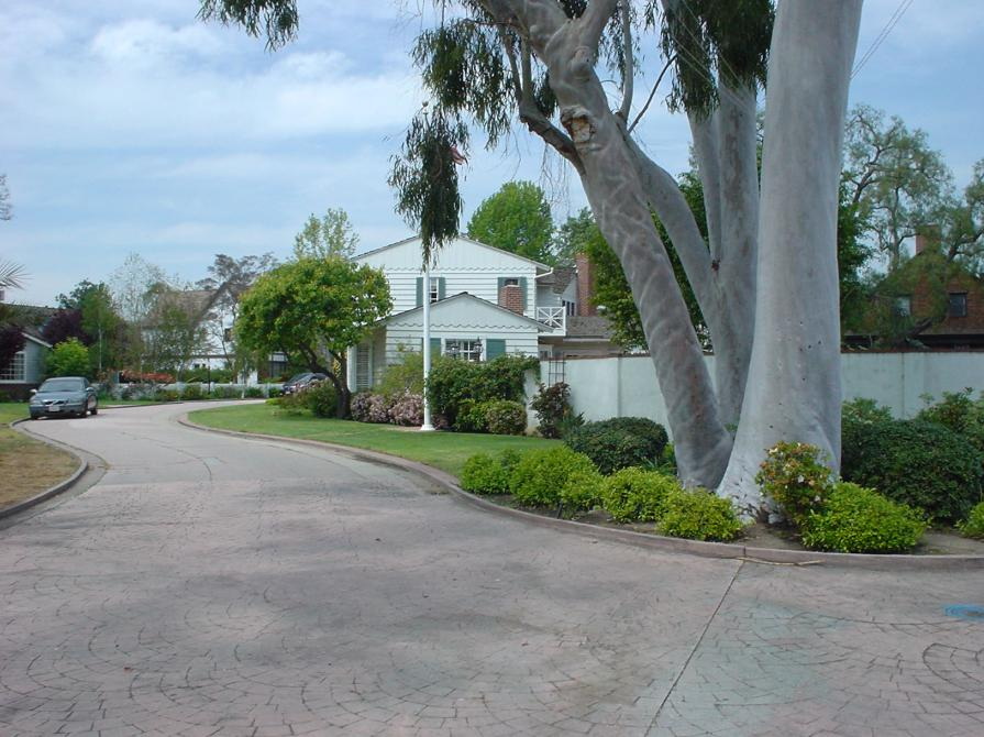 April 2008 photo in Los Cerritos of La Linda Drive looking North West from the entrance.